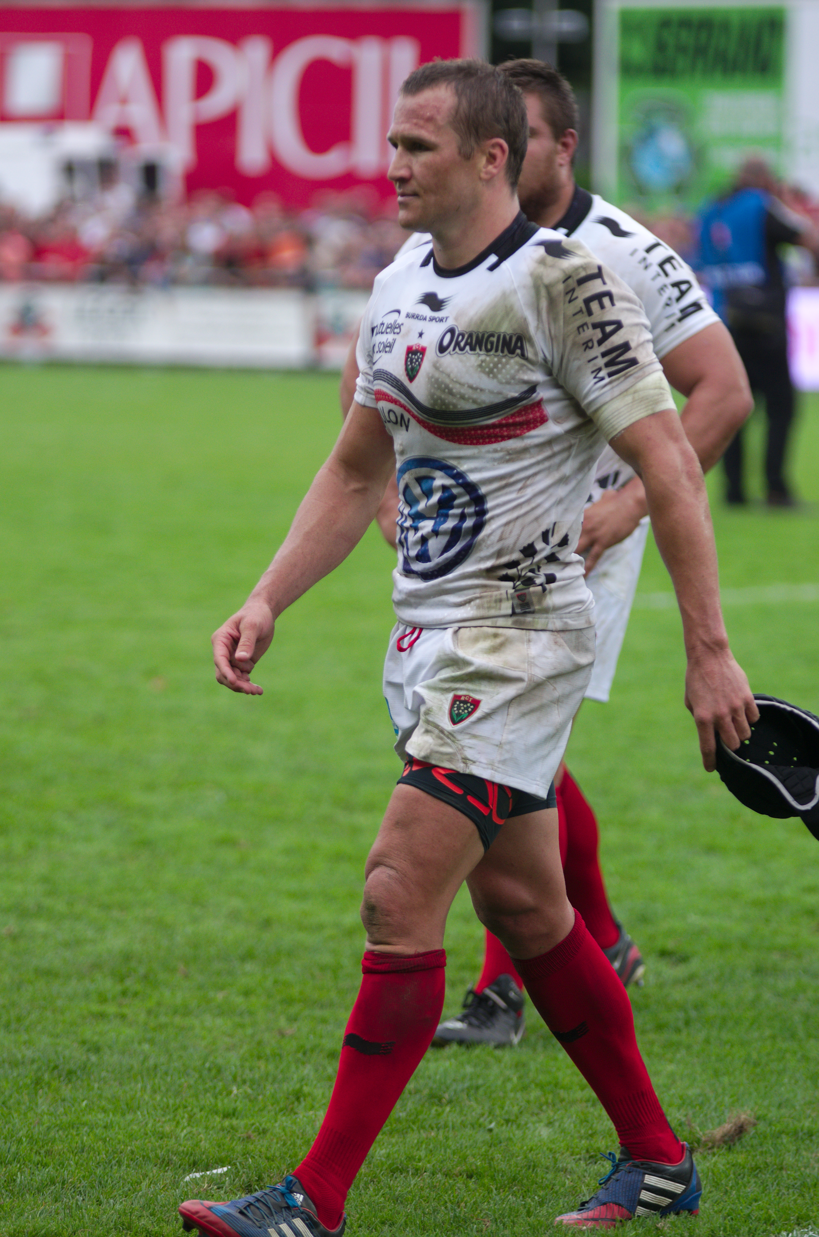 USO - RCT - 28-09-2013 - Stade Mathon - Matthew Giteau